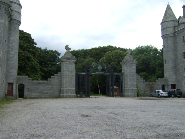 East Gate East Lodge for Dunecht House.